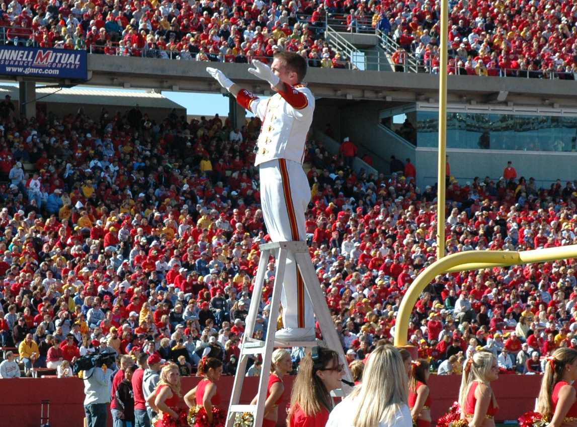 A better cropped and named version of a picture showing a CMB drum major conducting.